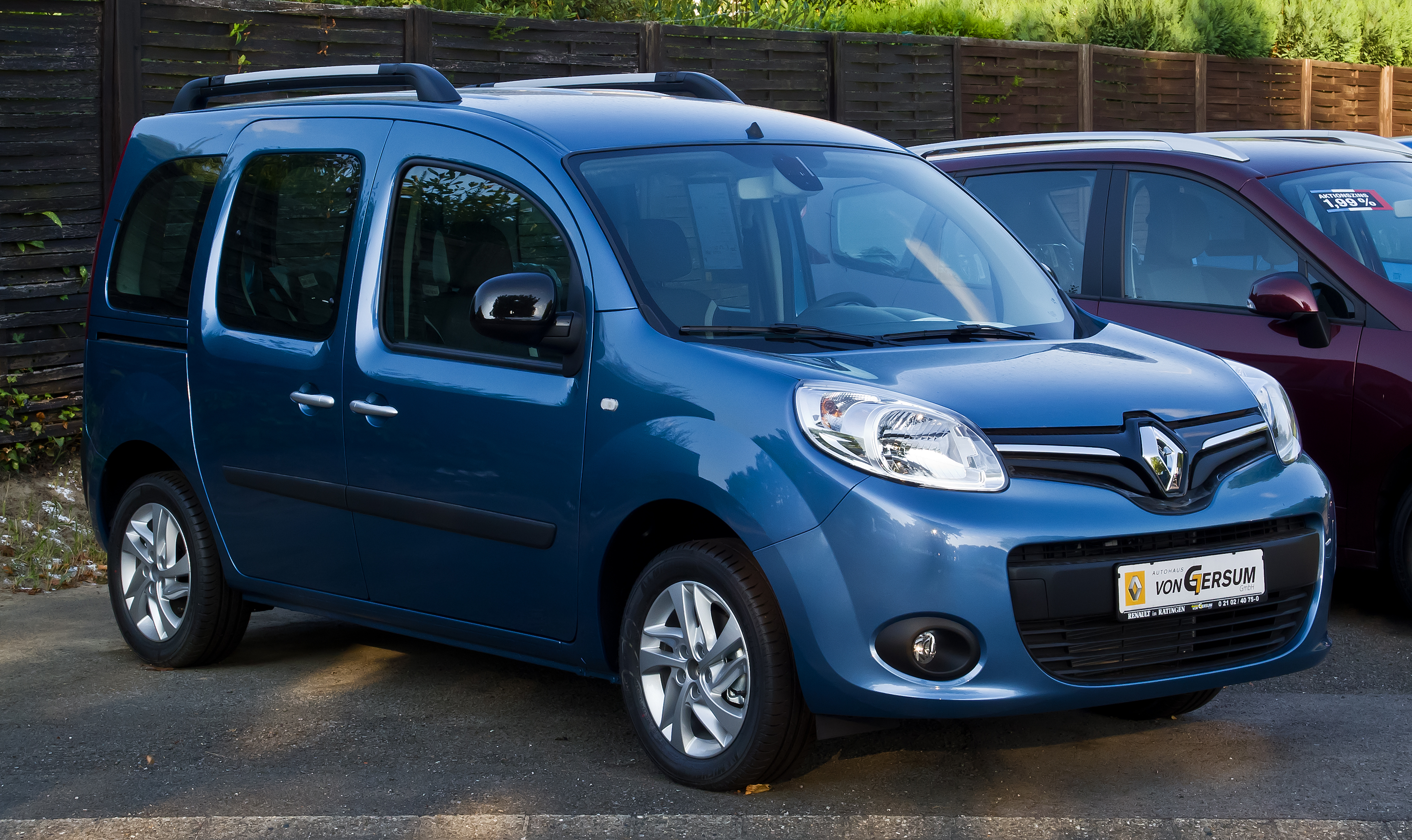 Renault Kangoo Paris 105 (II, Facelift)